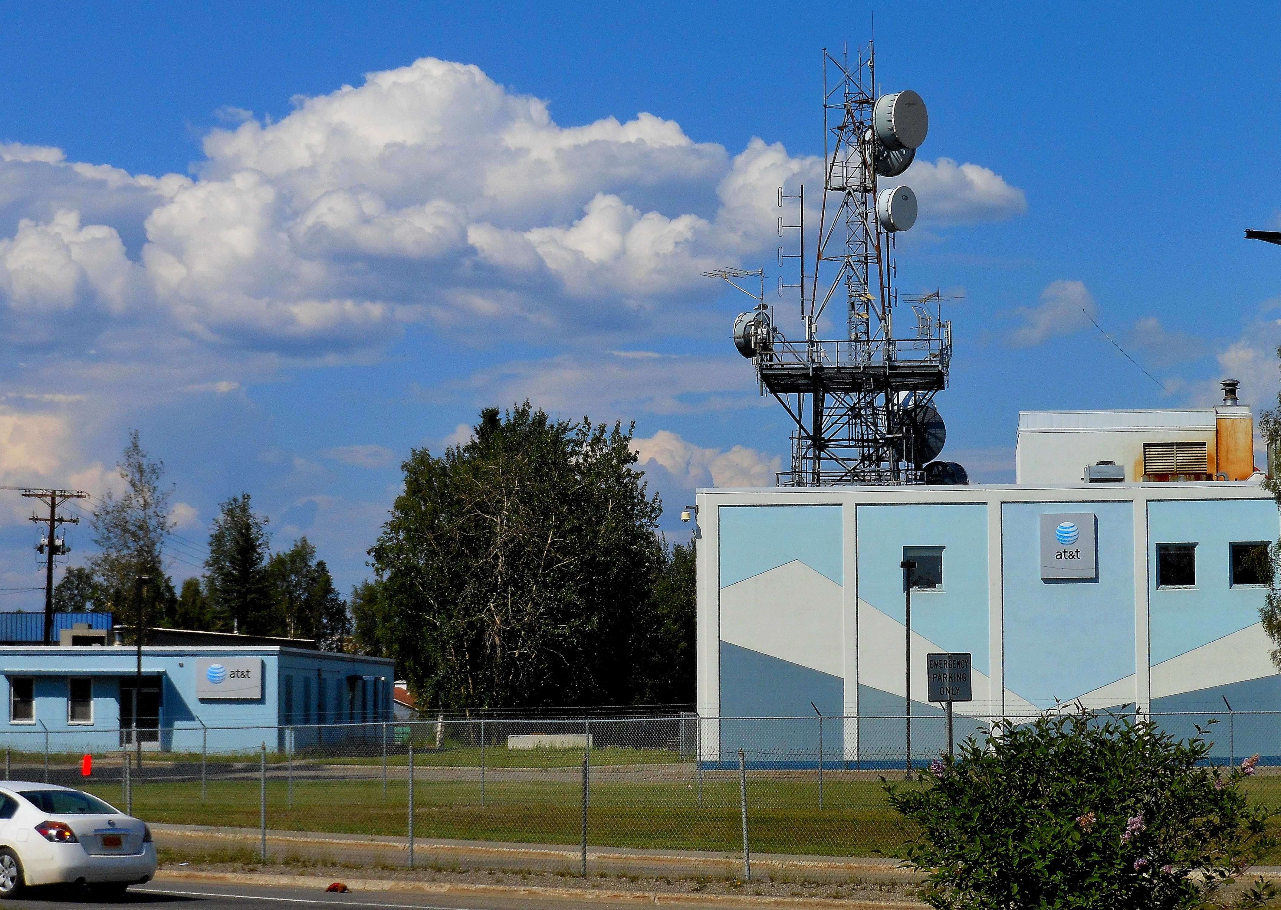 The AT&T Alascom building at 200 Gaffney Road in Fairbanks, Alaska. The building was constructed for the Alaska Communications System, a military entity which also provided civilian communcations in Alaska through the 1960s, before RCA purchased the system and started Alascom. The ACS name and insignia is etched into the building beyond the right edge of the photo. The immediate surrounding area was originally part of Fort Wainwright; the main gate of Wainwright, previously directly to the east of the camera location, is now further to the east following the construction of the federal building and Richardson and Steese expressways.